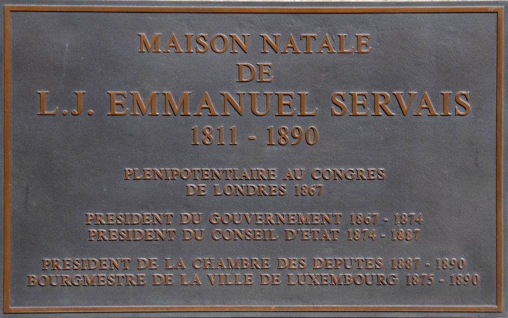 Plaque on Emmanuel Servais' birth house in Mersch, Luxembourg.